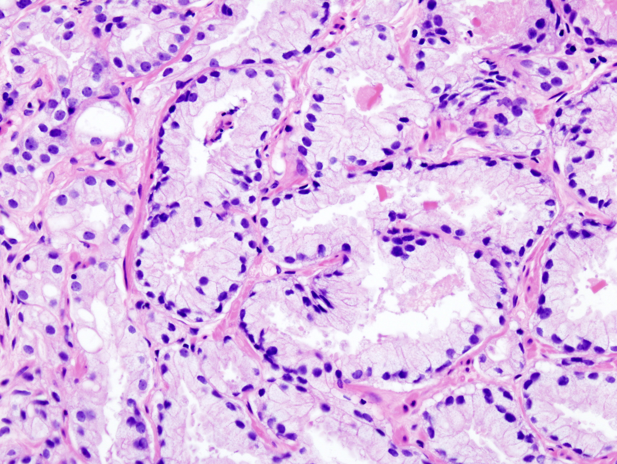 Histopathologic image of acinar type adenocarcinoma obtained by core needle prostate biopsy. Photographed by CCD camera through Olympus microscope, then modified by auto-contrast function in Adobe software.